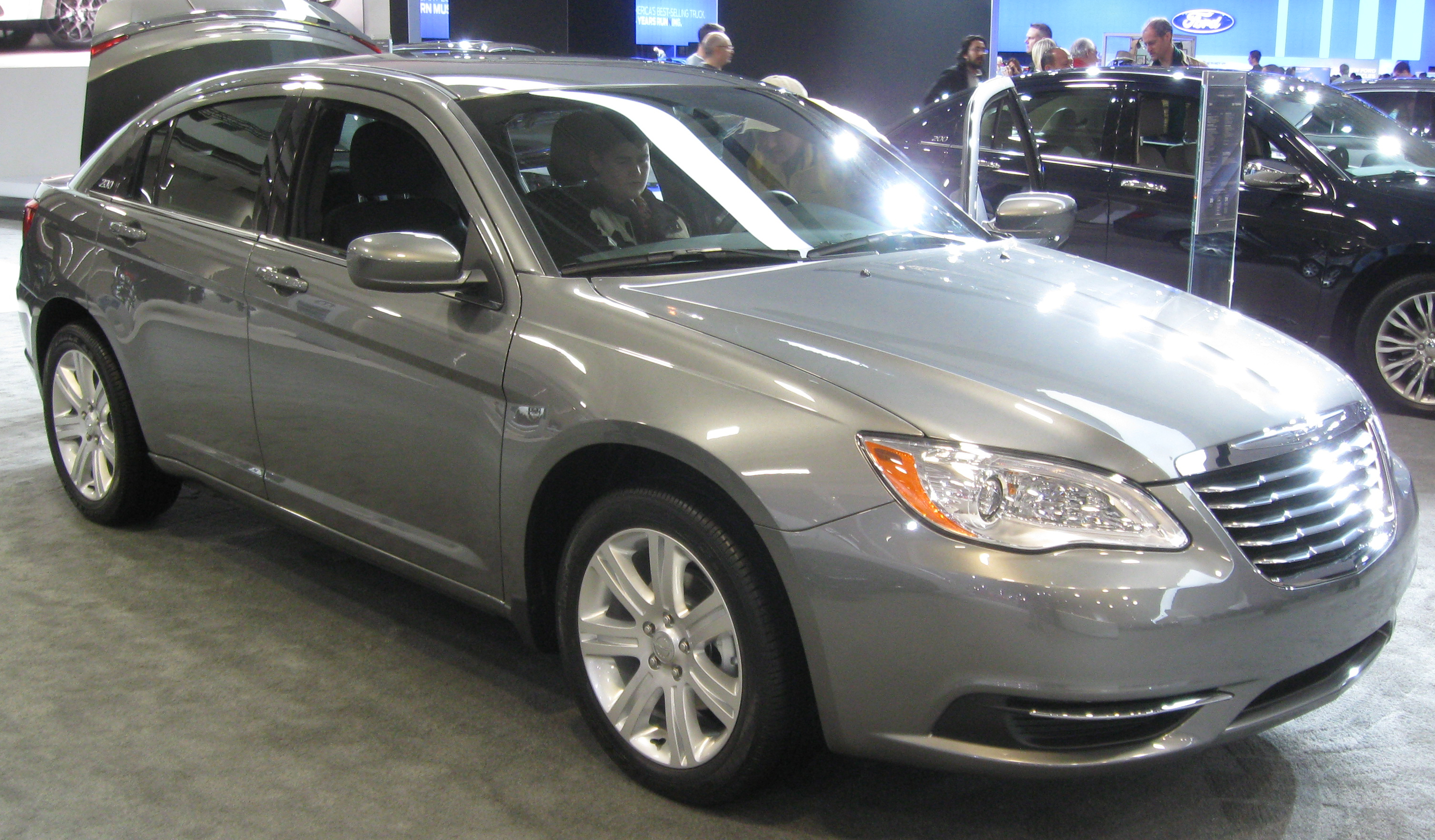 2011 Chrysler 200 photographed at the 2011 Washington (D.C.) Auto Show.